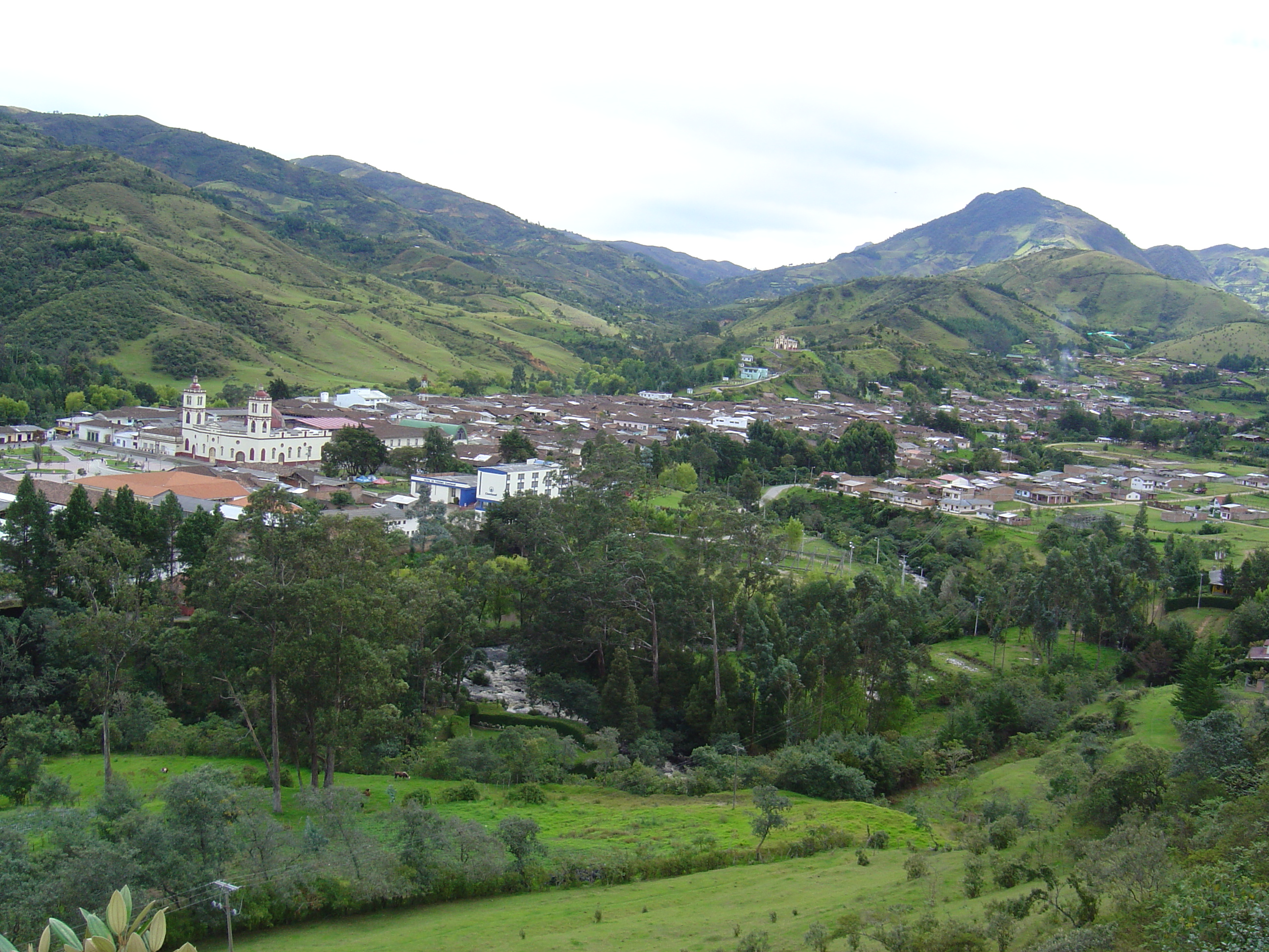 Panoramic of Silvia, Cauca